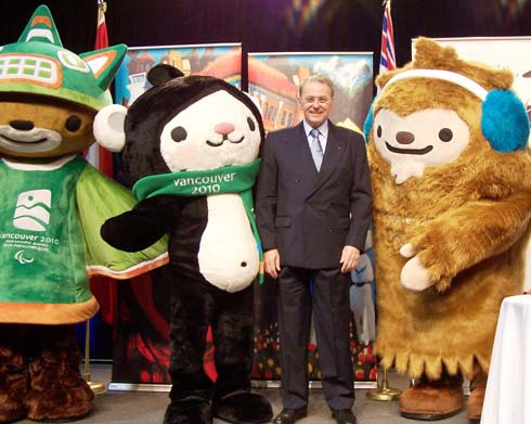 The Vancouver Art Gallery is the main exhibition space for the city. The towers of the Fairmont Hotel rise behind. (ATR)